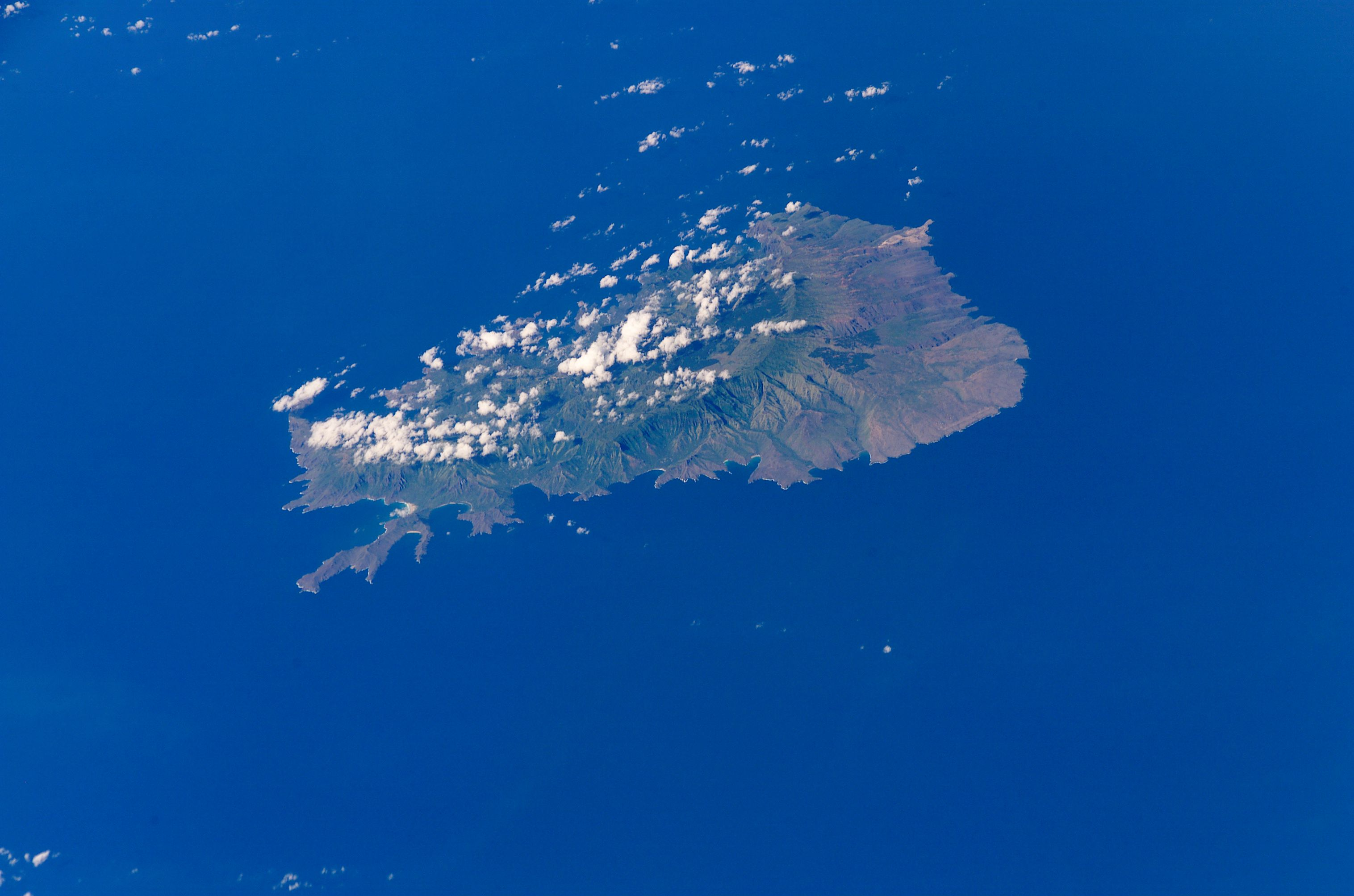 NASA astronaut image of Nuku Hiva, Marquesas Islands, French Polynesia